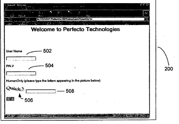 I crested this image